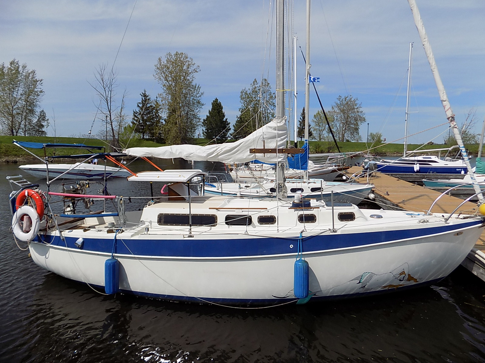 A Discovery 7.9 sailboat named Second Season.